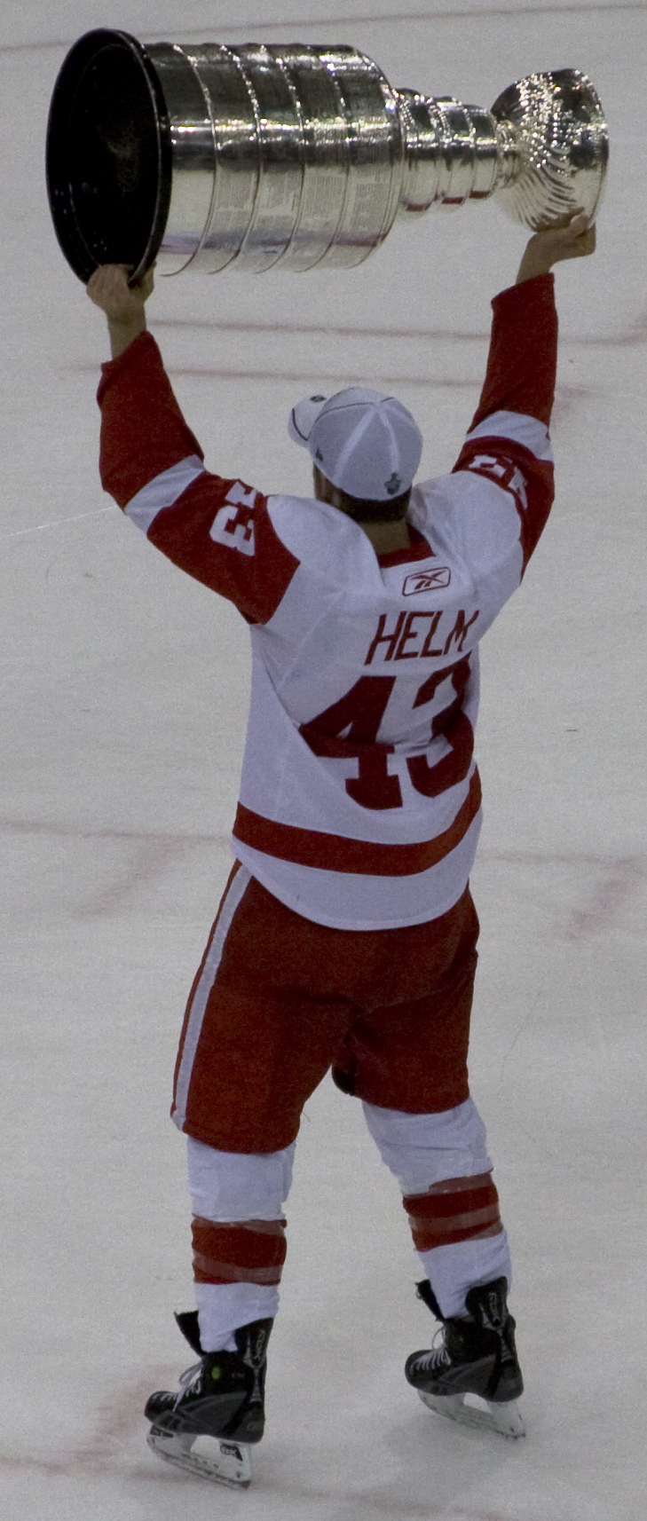 Darren Helm of the Detroit Red Wings circles the ice at Mellon Arena, holding the Stanley Cup.